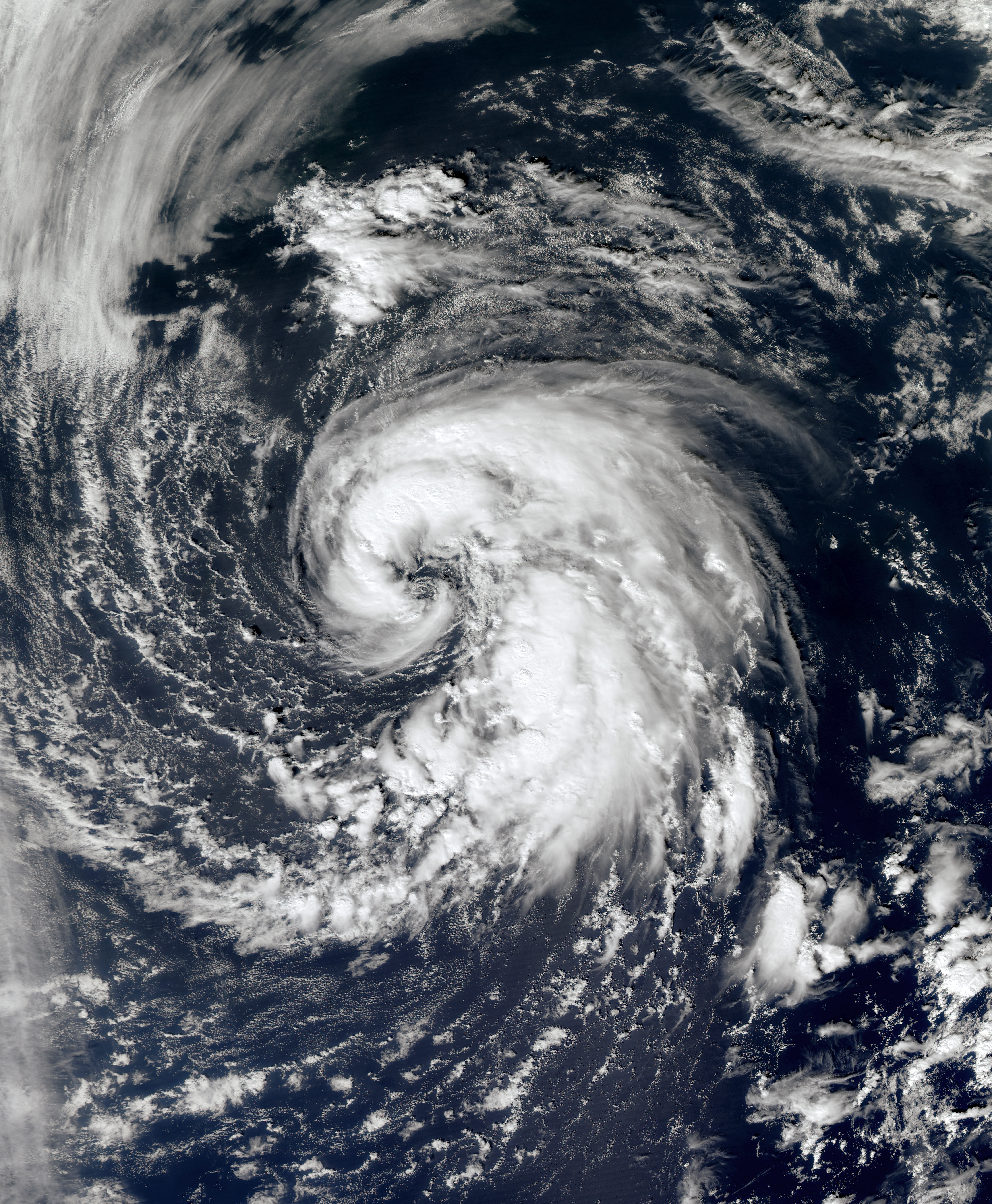 In late September, a large non-tropical system located over the north-central Atlantic slowly moved westward away from the Azores. The low produced hurricane-force winds, but did not exhibit the characteristics of a tropical cyclone. The storm steadily weakened over the following days, but developed tropical characteristics as it moved over slightly warmer waters. By September 29, the low had developed sufficient convection and was declared Subtropical Storm Laura. Upon being upgraded, cold cloud tops began to wrap around the center of Laura and consolidate near the center of circulation. The convection organized around the center quickly and a satellite pass over the storm revealed that it could be intensifying. A later satellite pass disregarded the possibility of intensification as the intensity was confirmed to be at 60 mph (95 km/h). The overall structure of Laura remained subtropical but there were indications that it might have been acquiring tropical characteristics. As of 11 p.m. AST September 29 (0300 UTC September 30), Subtropical Storm Laura is located within 20 nautical miles of 38.3°N 48.4°W, about 585 mi (940 km) south-southeast of Cape Race, Newfoundland and Labrador. Maximum sustained winds are 50 knots (60 mph, 95 km/h), with stronger gusts. Minimum central pressure is 995 mbar (hPa; 29.38 InHg), and the system is moving north at 8 kt (9 mph, 15 km/h).